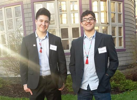 Marcos Moreno stands with fellow Udall Scholar Victor Lopez-Carmen